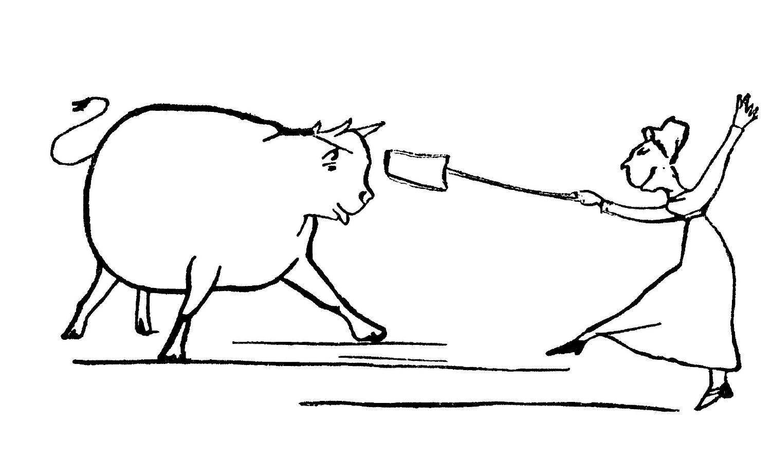 A_Book_of_Nonsense No.73 (A Young Lady of Hull)